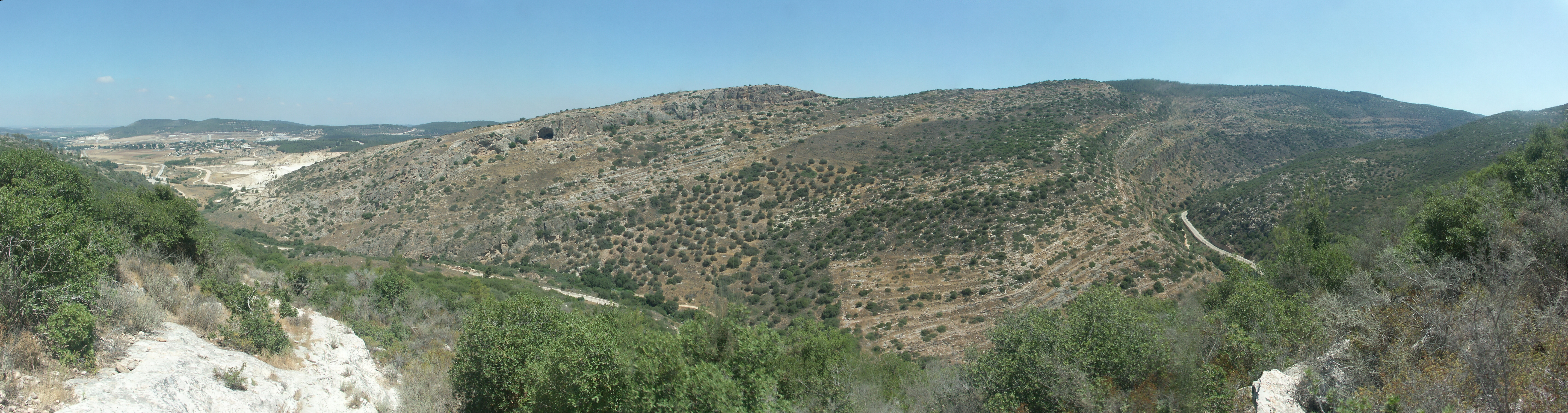 Panoramic view of Nahal Sorek channel, in the western part of the Jerusalem mountains.